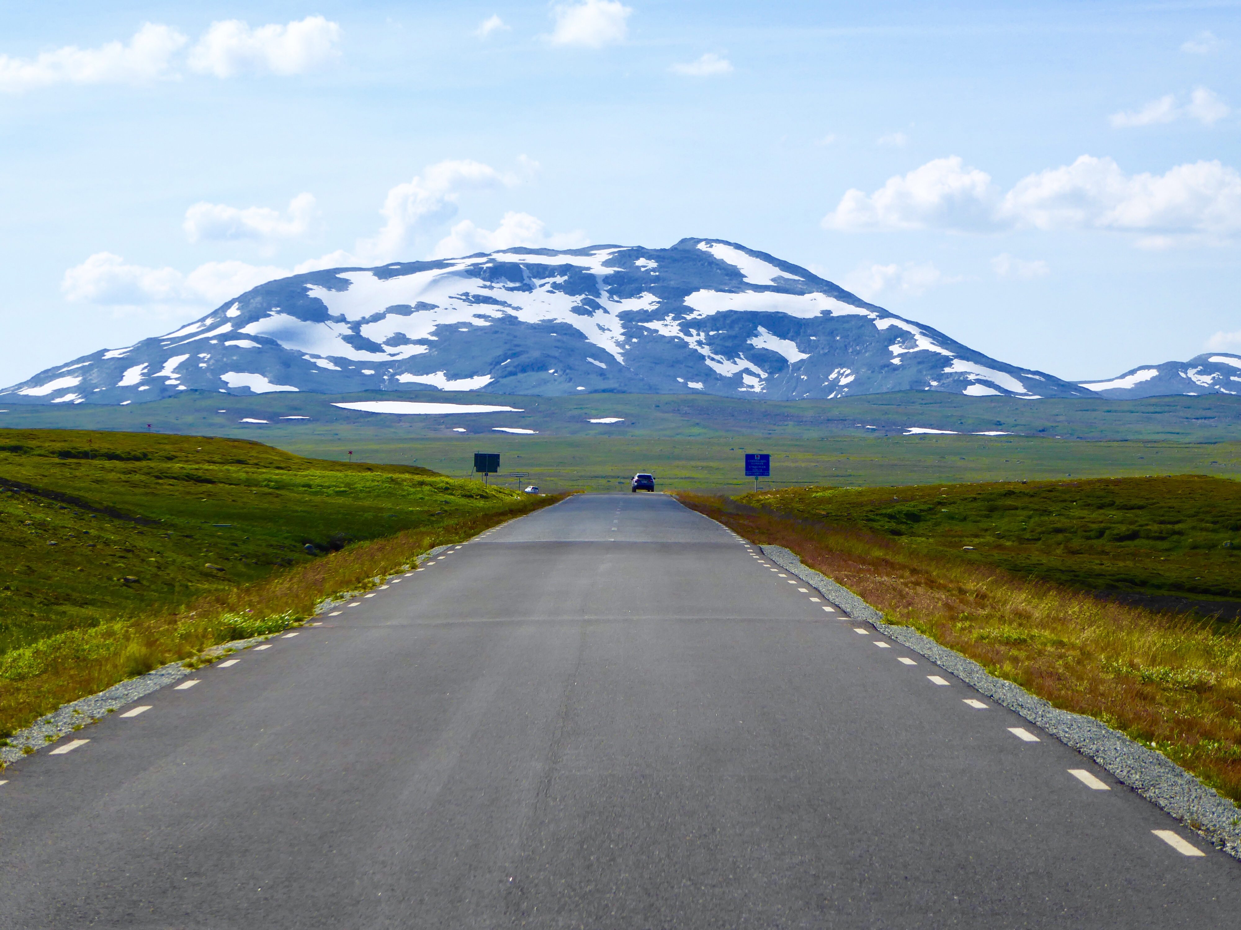 Mount Sipmehke at Vildmarksvägen (wilderness road) in Jämtland, Sweden.